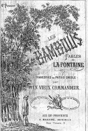 Cover of François-Achille Marbot's Les Bambous, fourth impression